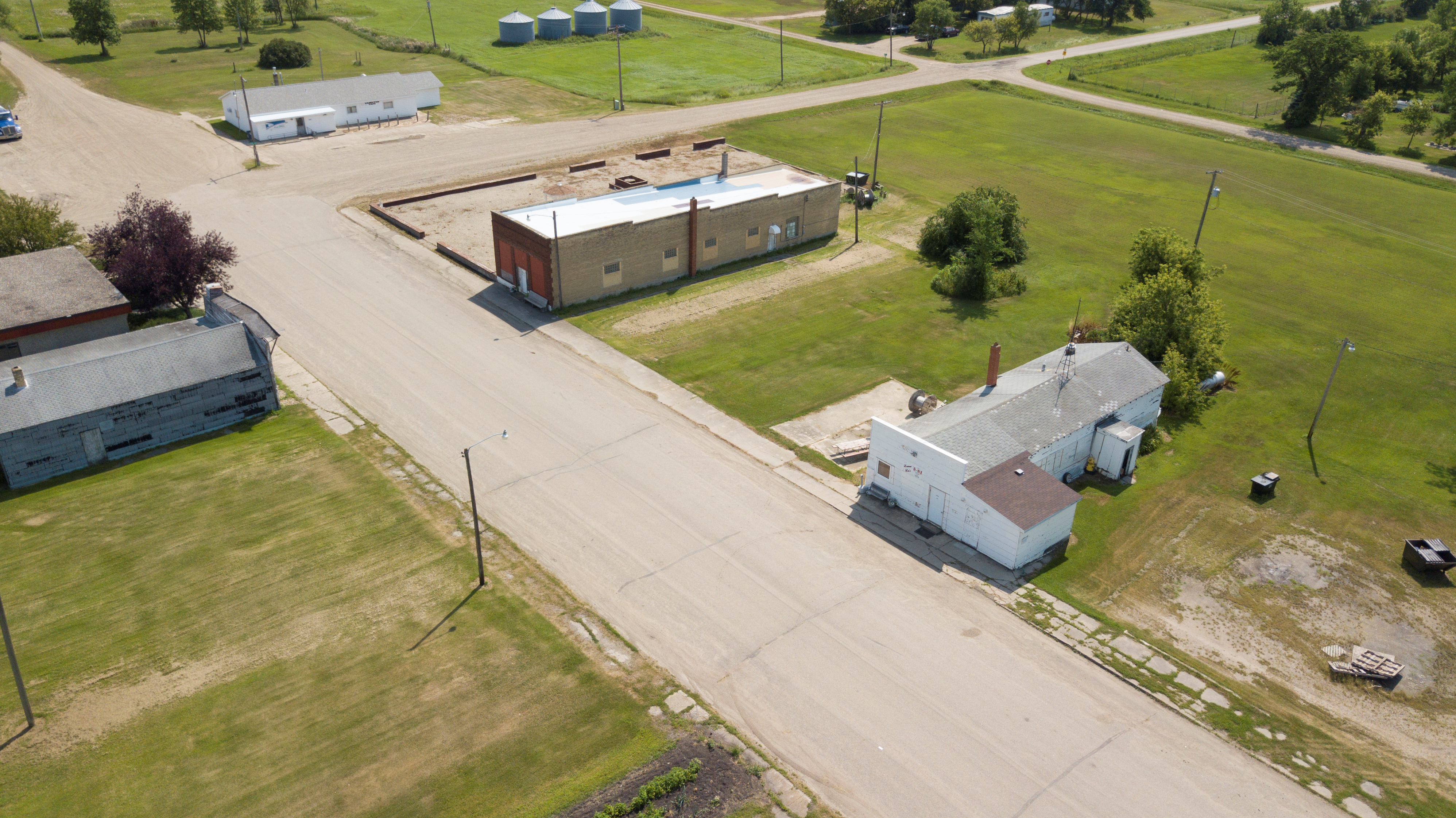 Hamilton, North Dakota - Wall Street (Main Street) showing the 5-81 Country Bar & Grill, taken with a DJI Mavic Pro drone by Neal Martin (originally from Hamilton, ND).